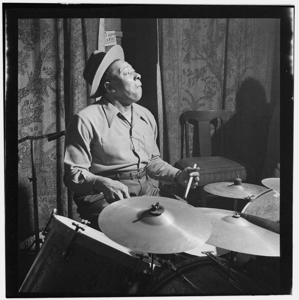 Sid Catlett, New York